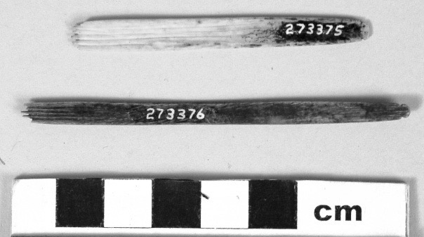 These are the 2 Iuhi tattooing needles collected by A.W.F. Fuller and donated to the Field Museum.